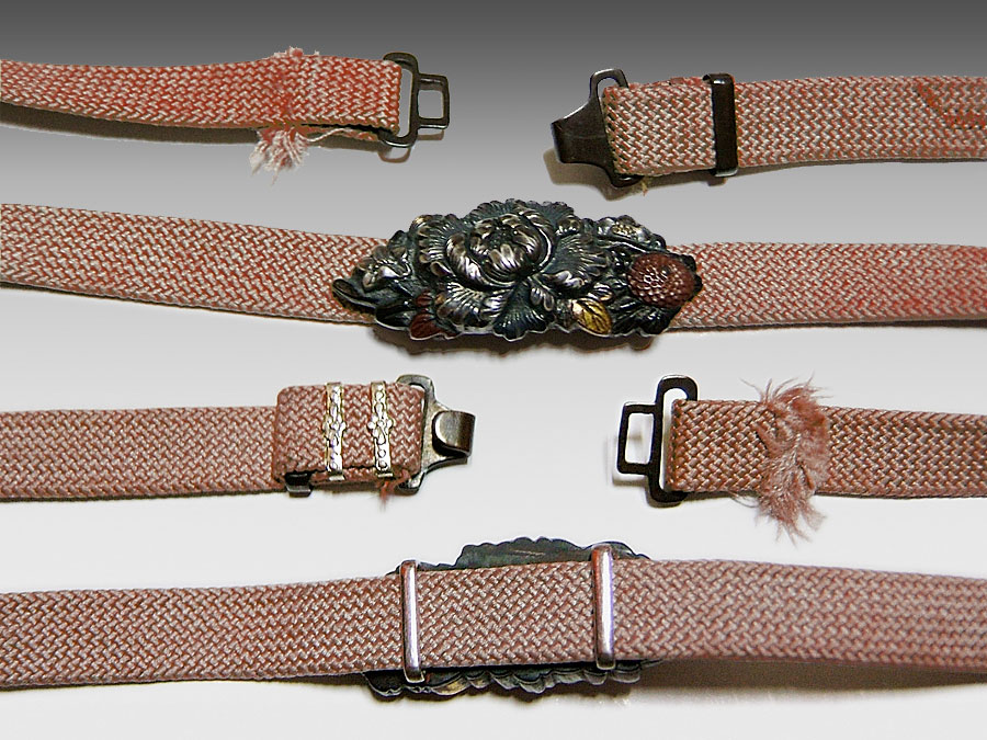 An Example Of Using A Metal Work Of A Hook Type and An Obidome Of A String passed Through Type Together